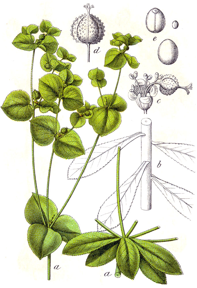 Euphorbia platyphyllos L. Original Caption Breitblättrige Wolfsmilch, Euphorbia platyphylla